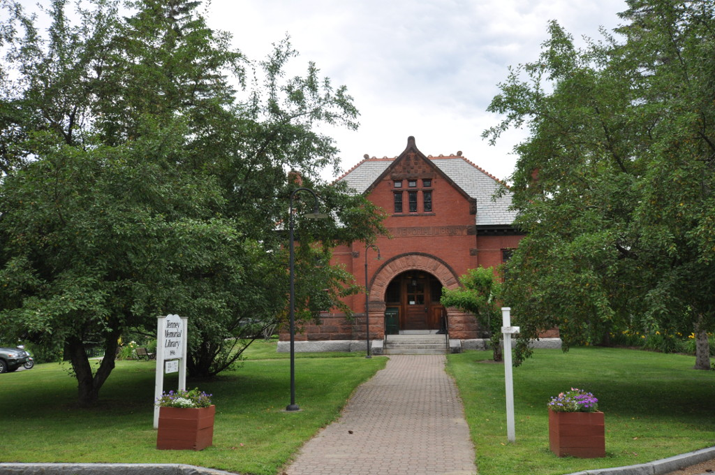 Newbury Village Historic District, Newbury, Vermont. Tenney Memorial Library.